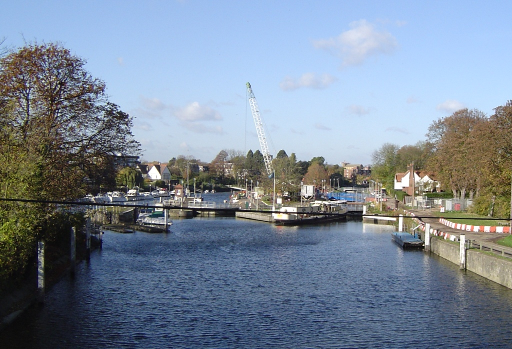 Teddington Lock on the River Thames, with the rollers, skiff lock, launch lock and barge lock udergoing maintenance